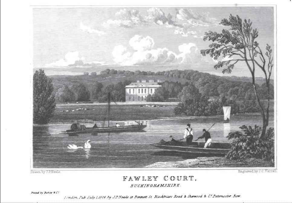 Engraving of Fawley Hall (see Fawley Court, drawing by John Preston Neale, dates 1 July 1826, engraving by J. C. Varrall, in Views of the seats of noblemen and gentlemen in England, Wales, Scotland and Ireland, Second Series, Volume III, published 1826